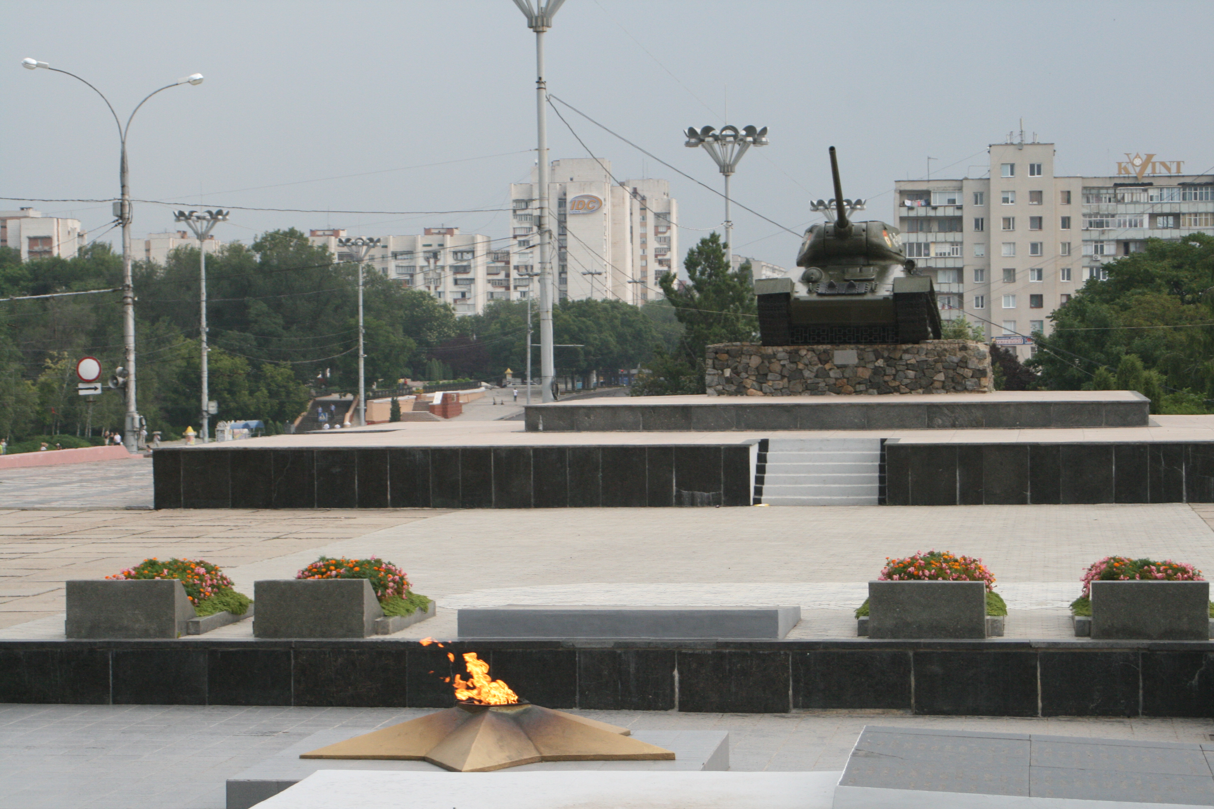 Tomb of the unknown soldier, a part of Heroes' Cemetery, monument to people who died during the first outbreak of fighting on 3 March 1992